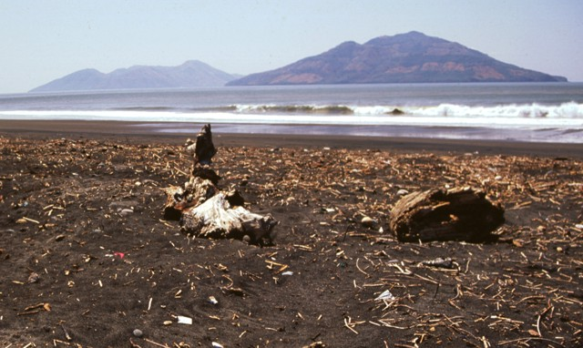 Conchagüita (right) and Meanguera (left) volcanoes lie across a narrow strait from Punta El Chiquirín in eastern El Salvador. Conchagüita is the youngest of the two small volcanic islands in the Gulf of Fonseca and had an historical eruption in 1892. The more eroded Isla Meanguera volcano ceased activity during the Pleistocene.